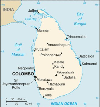 From the 2012 CIA World Fact Book